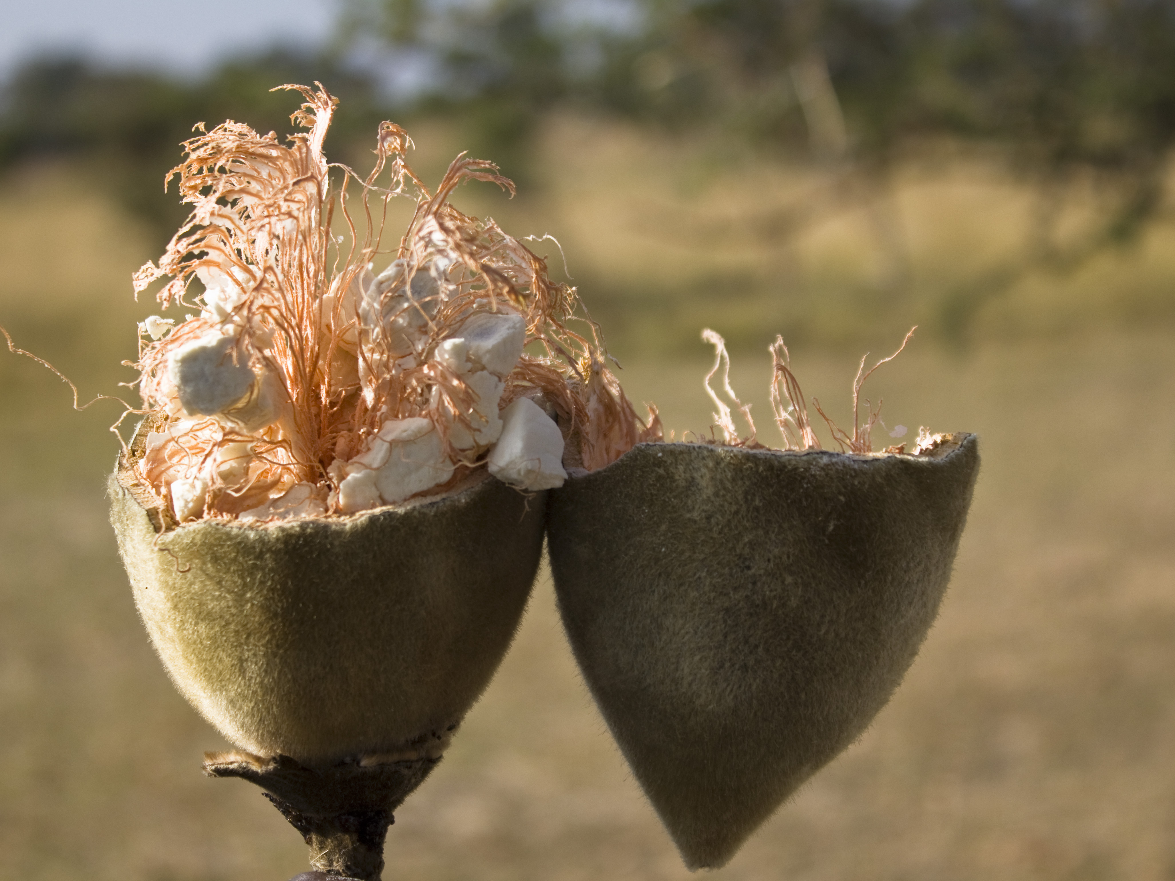 Baobab